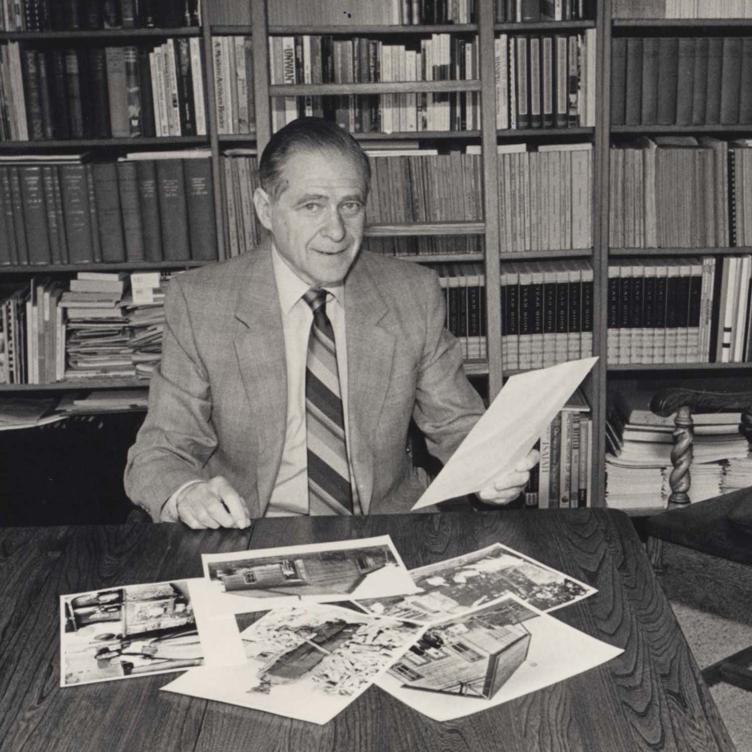 Portrait of Cyril Edel Leonoff in his study